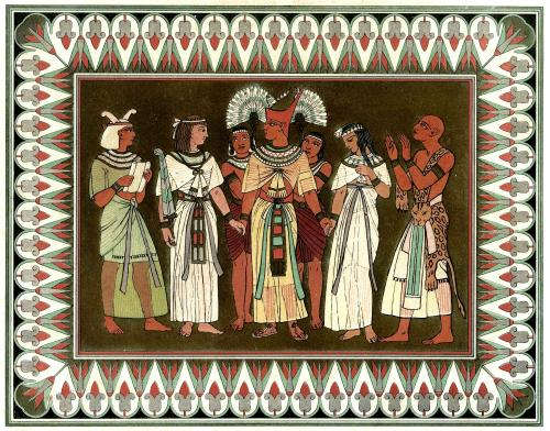 Illustration by Owen Jones from "The History of Joseph and His Brethren" (Day & Son, 1869). Scanned and archived at where it was marked as Public Domain. Text from Book: And Pharaoh called Joseph's name Zaphnath Paaneah; and he gave him to wife Asenath, the daughter of Poti-Pherah priest of On. Genesis, C. XLI. V. 45.